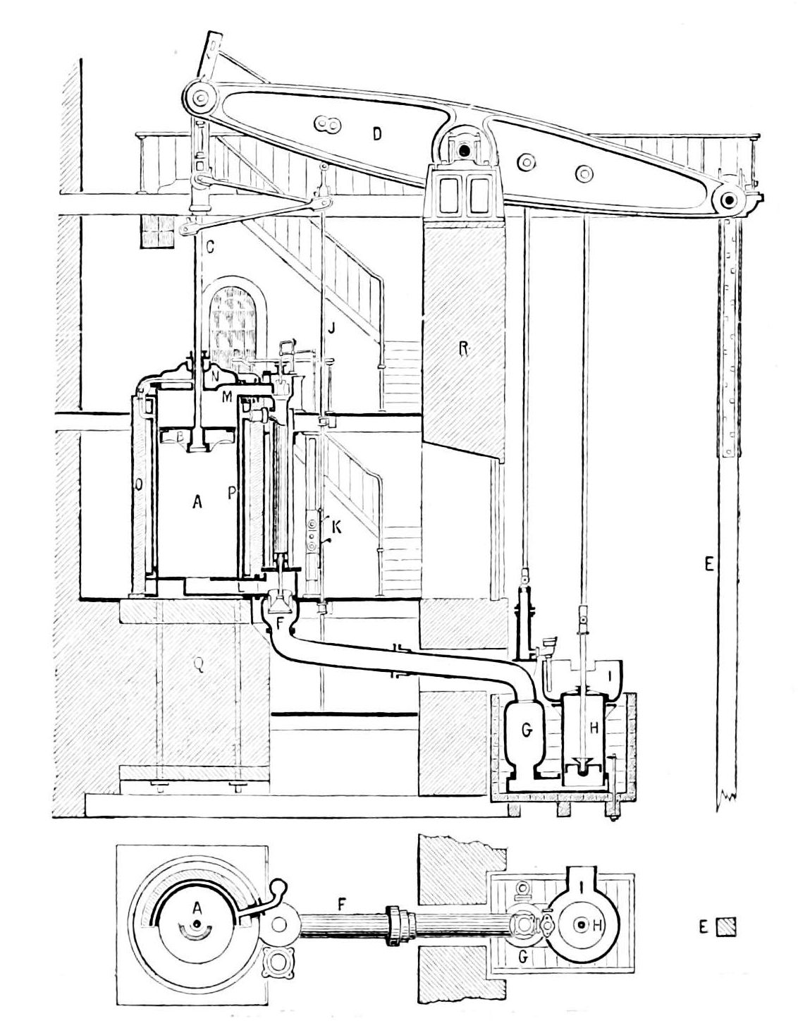 The Cornish pumping engine 1877